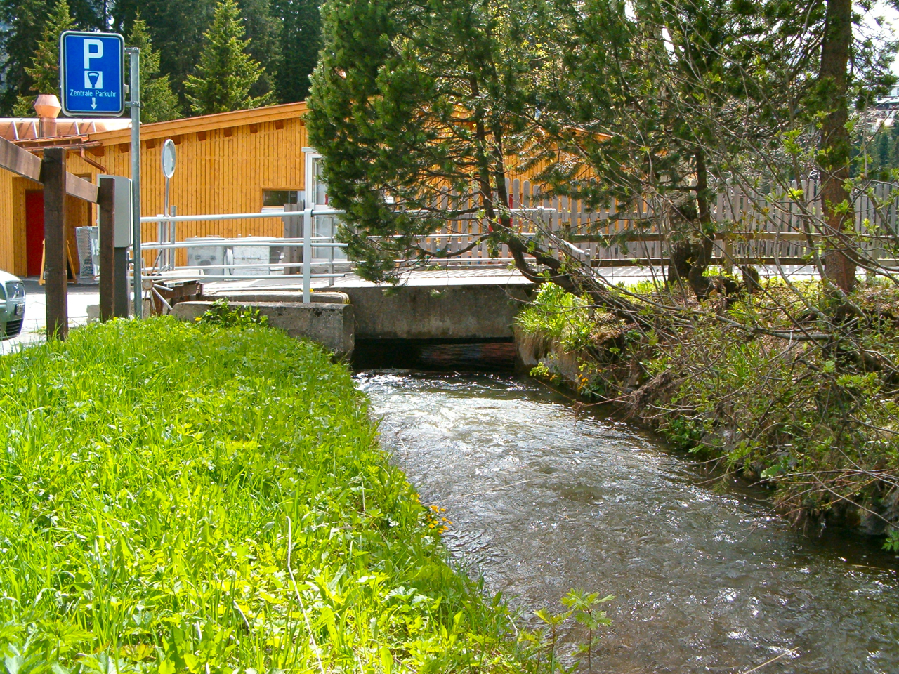 Mittelbach leading to Untersee, Arosa/Switzerland